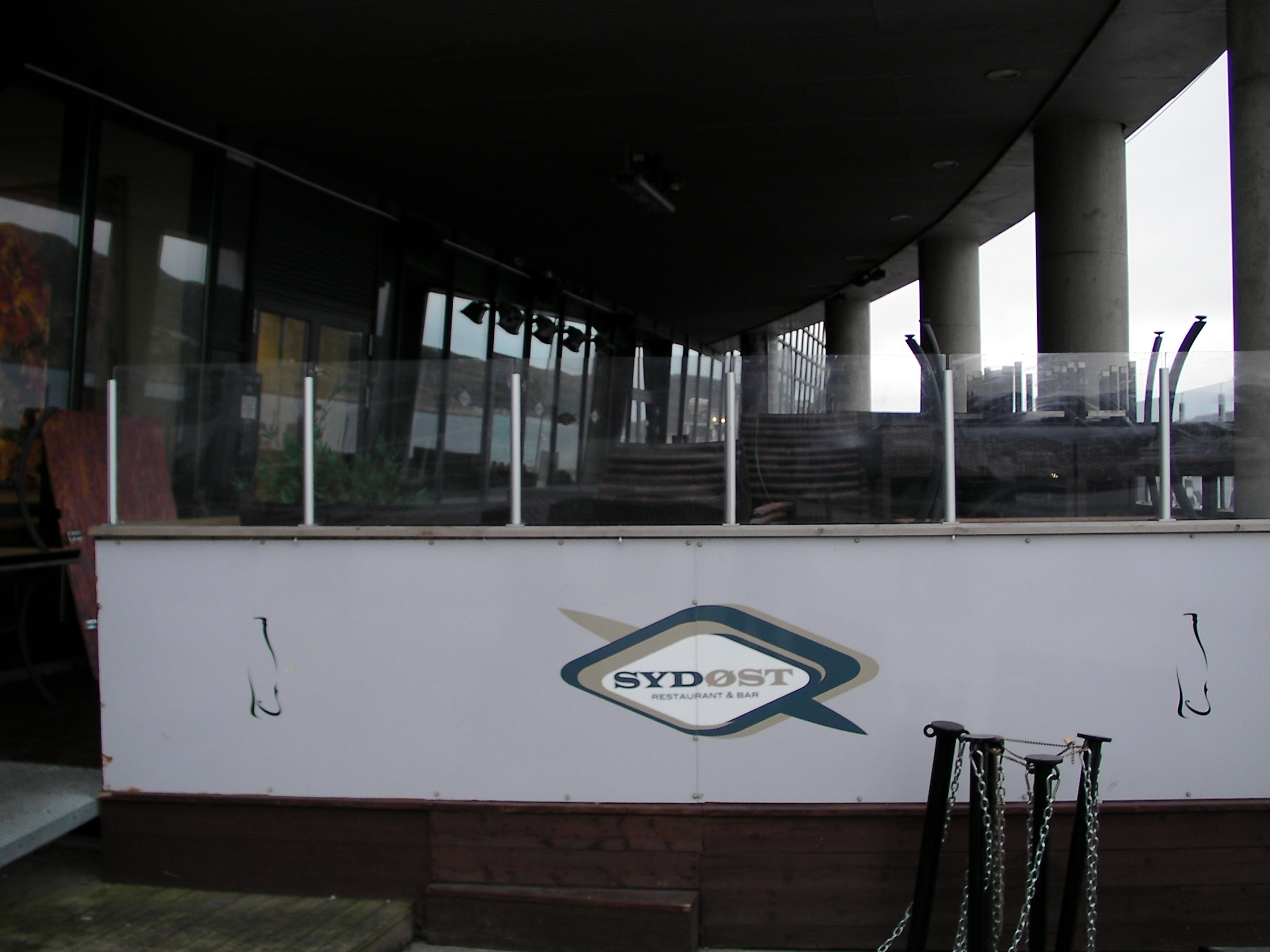 Sydost Bodo